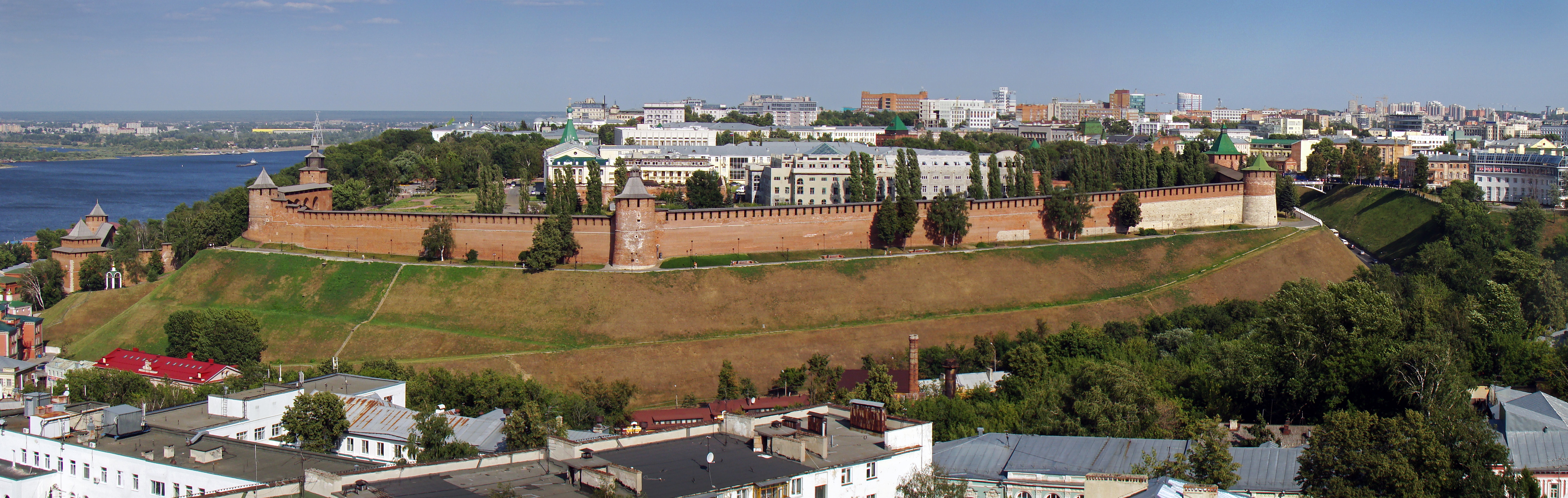 Nizhny Novgorod Kremlin, Russia